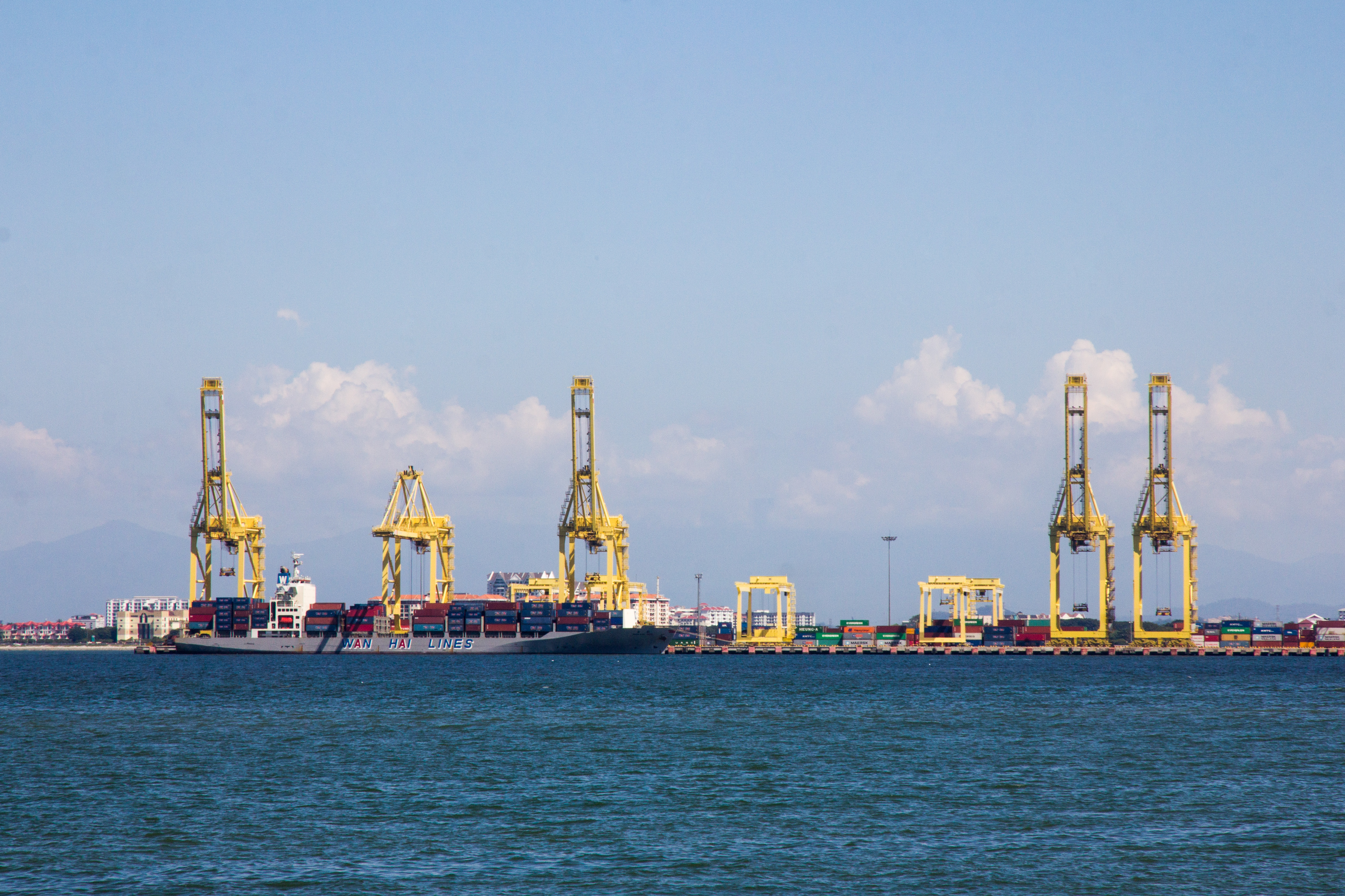 Image of Penang Port